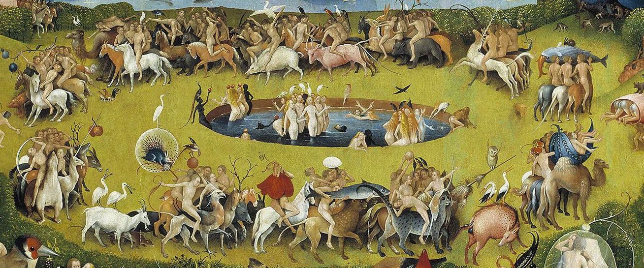 The Garden of Earthly Delights detail